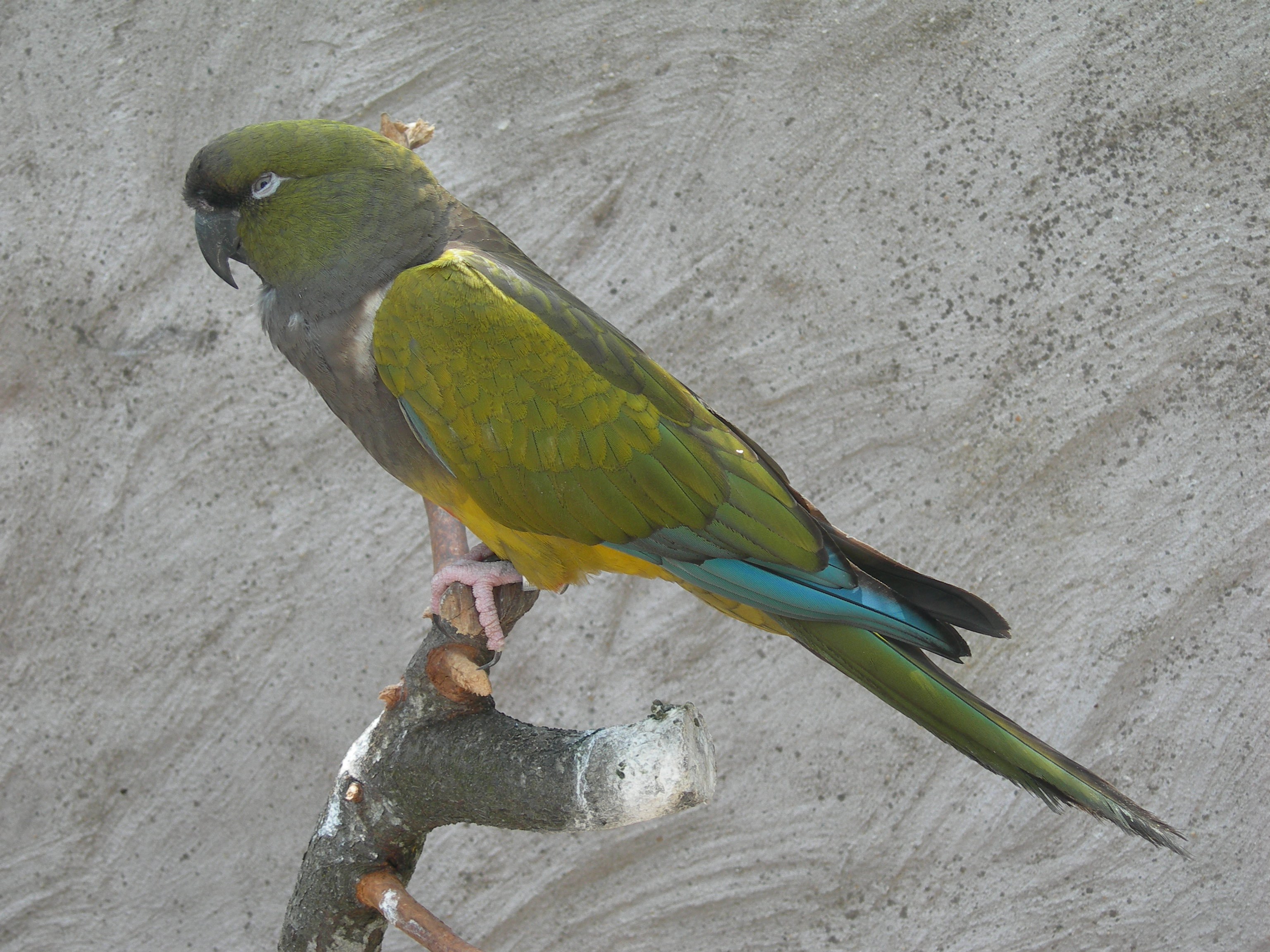 Burrowing Parakeet (Cyanoliseus patagonus), zoo in Fitilieu, France